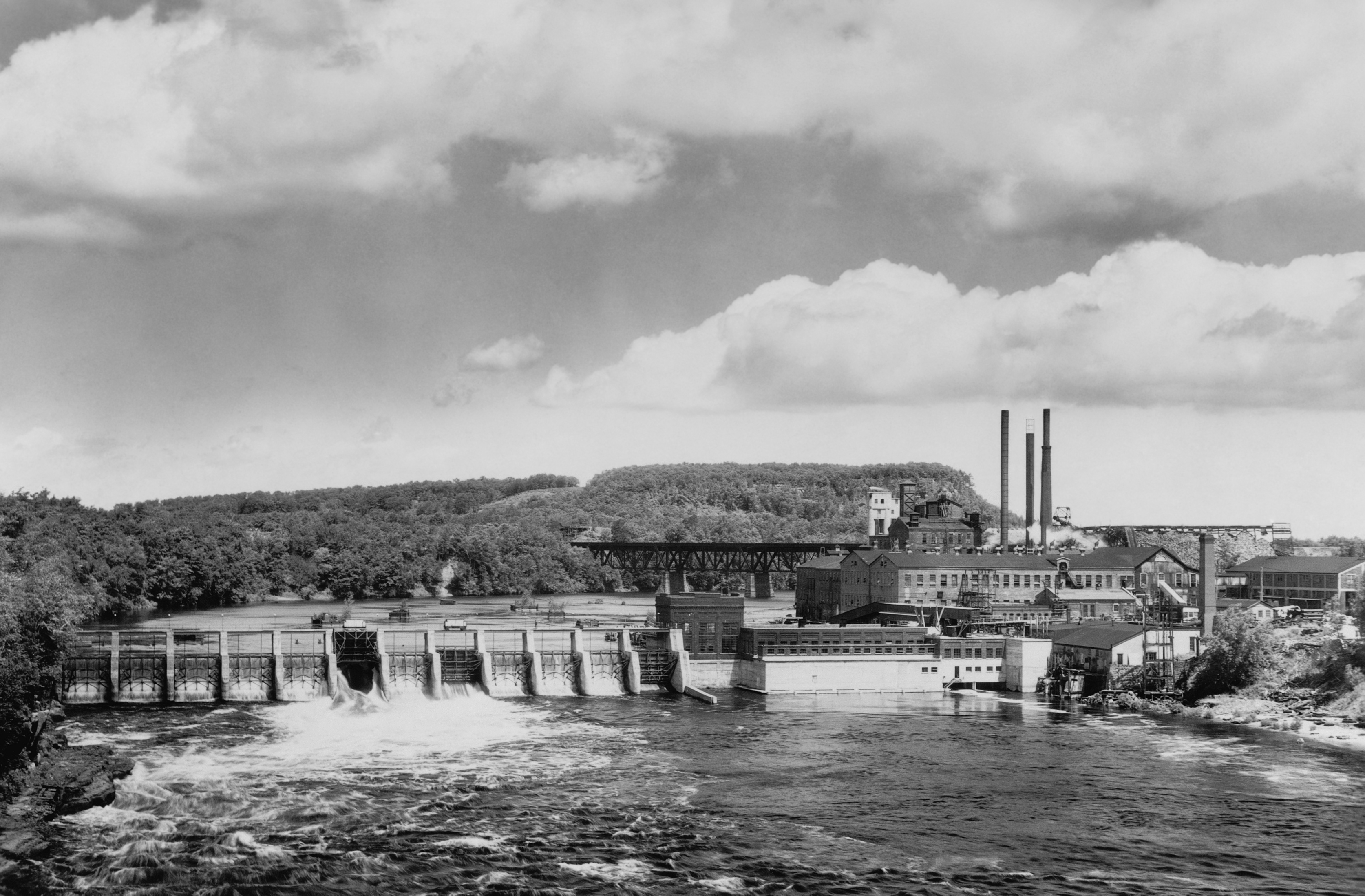 The Dells Dam (Dells Paper and Pulp Company), two miles above Eau Claire, Wisconsin on the Chippewa River, and the site of the paper and pulp mill.